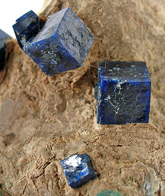 Boleite Locality: Amelia Mine, Santa Rosalía (El Boleo), Boleo District, Municipio de Mulegé, Baja California Sur, Mexico (Locality at ) Size: small cabinet, 7.5 x 5 x 4.5 cm Boleite Boleite is a very rare silver species that only here occurs in large crystals in this quality. After its first discovery in the late 1800s, it was a classic for Mexico, but a little off the beaten track as far as geography goes, compared to the rest of the Mexican minerals we see on the market, and in this collection. Thus, Romero had but a few examples since he focused on mainland Mexico. This was his best boleite. It has relatively large crystals for the species (nearly 1 cm) perched aesthetically on clay matrix, with traces of copper mineralization. Such rich, well-preserved pieces in this size range were uncommon. Certainly today, over 35 years later, they are even harder to obtain and are considered one of the hardest to obtain of Mexican classics. This is one of the finest boleite specimens collected in the "rediscovery" of the old location for this species, by field-collectors Bill Larson and Ed Swoboda in 1973. Romero got it directly from Larson in the 1970s. This specimen from the Dr Miguel Romero collection was on loan exhibition to the University of Arizona Museum for over a decade, until my purchase of this collection in 2008. It was on display in special cases at the museum, and has since been featured in the book "The Miguel Romero Collection of Mexico Minerals" which we sponsored as a special supplement book (published by the Mineralogical Record in December of 2008).